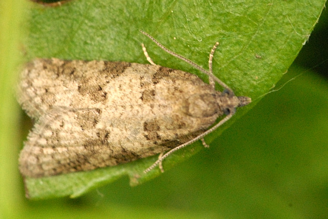 Cnephasia asseclana from Commanster, Belgian High Ardennes .